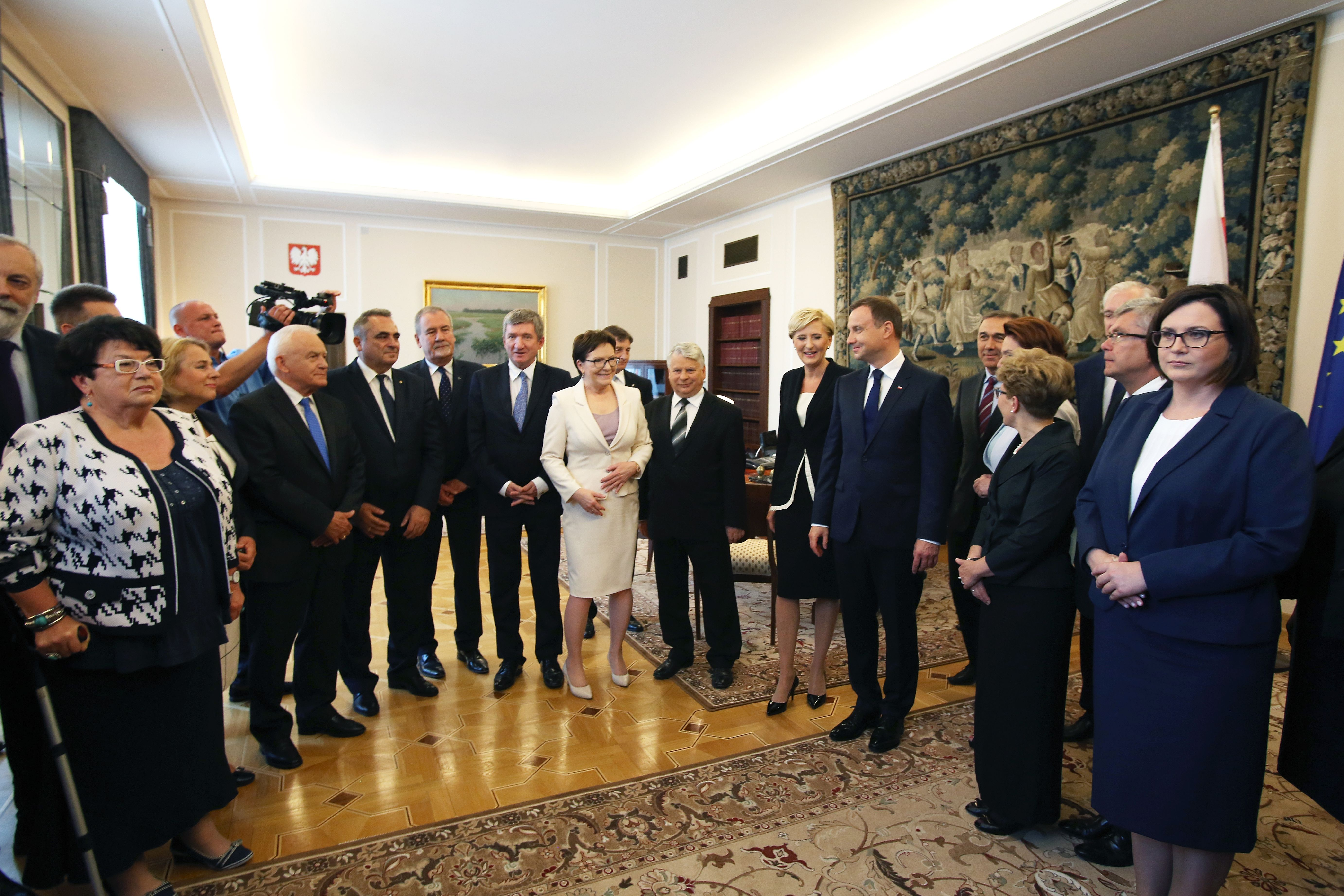 President Andrzej Duda during a meeting with the Council of Seniors of the Sejm and the Council of Seniors of the Senate at the Sejm